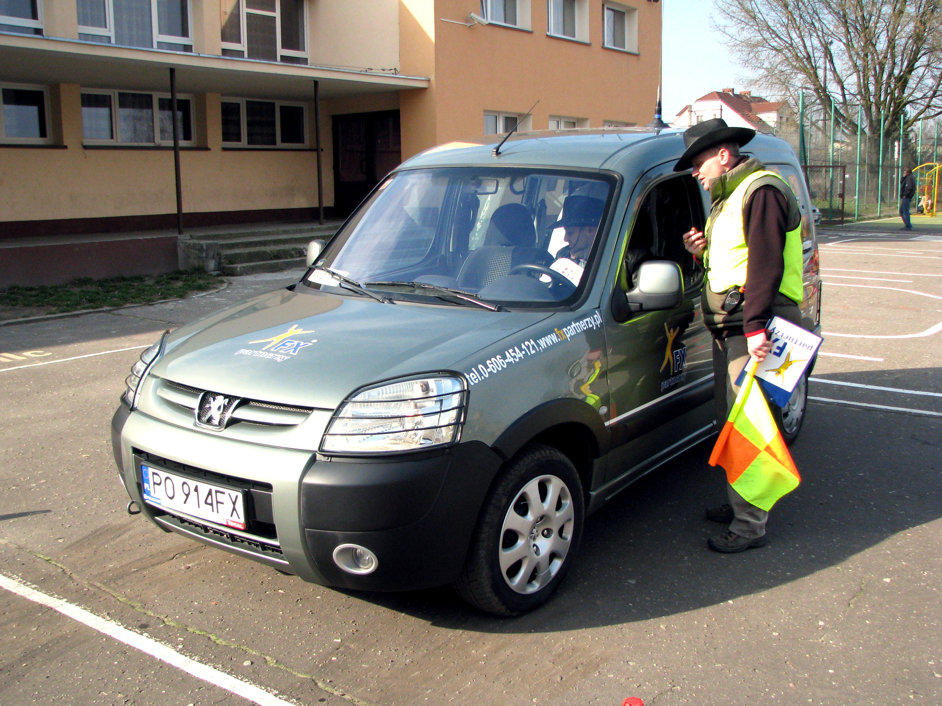 Amateur car rally. Poznań. Poland. 2008.